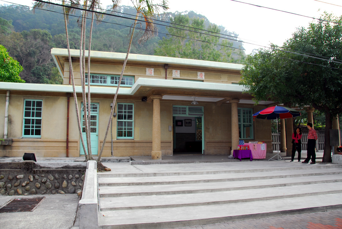 Taian Station (Old) is a train station along Old Mountain Line, an abandoned section of Taichung Line, one of the trunk line of Taiwan Railway Administration. It is located within the boundary of HouLi Township, TaiChung County. Today the station has been turned into a tourist site rather than a transportation infrastructure.